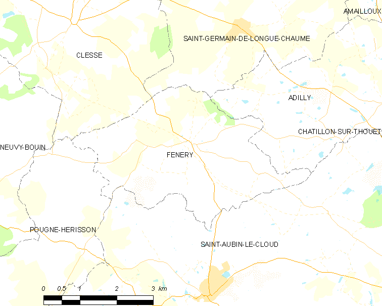 Map of French municipality Fénery